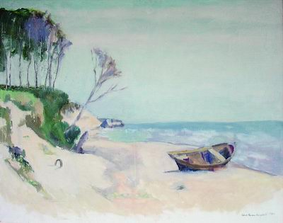 Oilpainting by artist Astrid Harms-Ringdahl